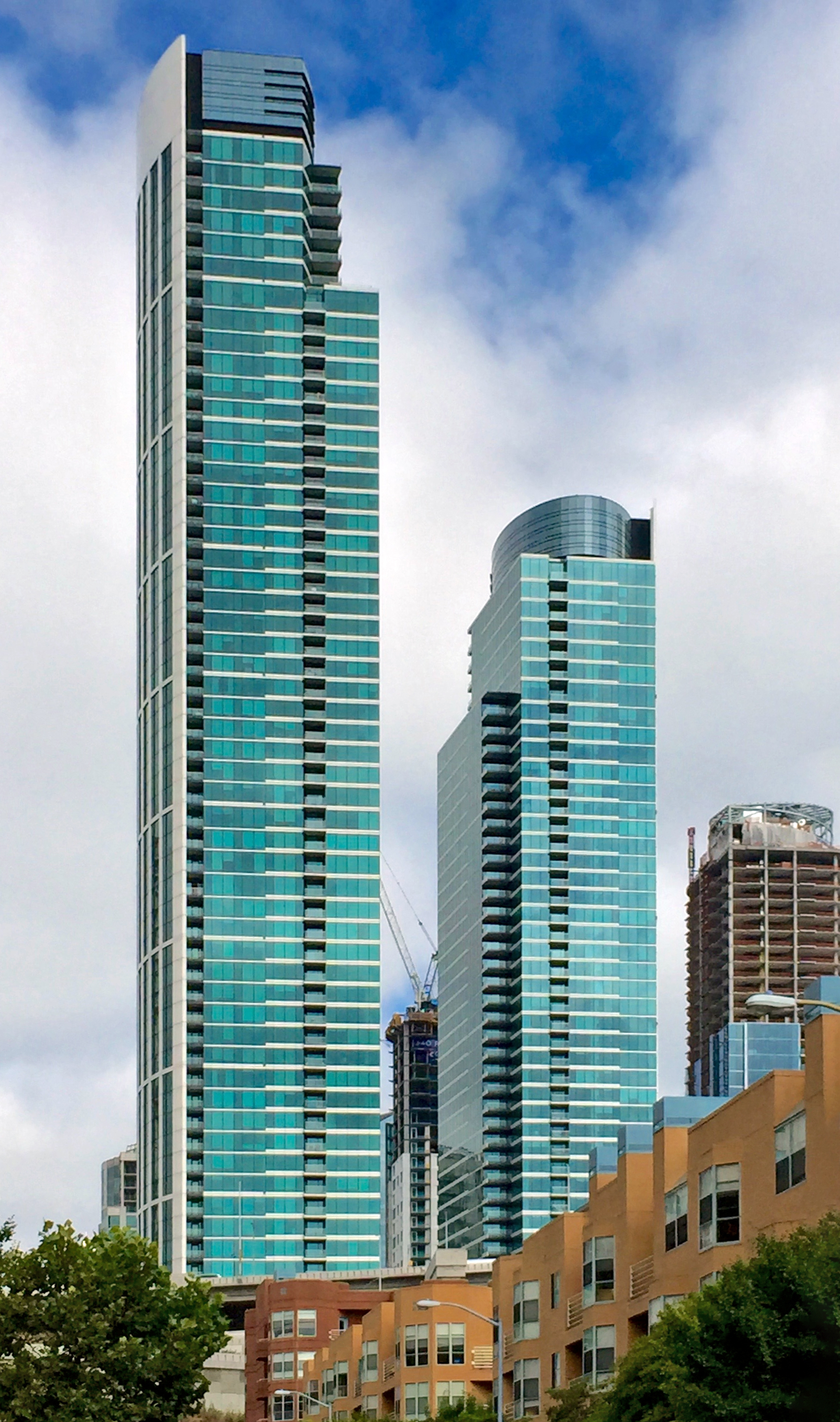 One Rincon Hill, San Francisco, South View